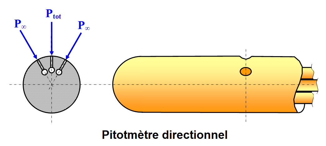 Directional pitmeter, according to an ASME document. If by turning this pitometer around its axis you can equalize the pressure sensed by the two extreme holes, the central hole is facing the flow and must therefore indicate the total pressure. It then suffices to subtract from this total pressure the pressure of one of the two extreme holes to obtain the dynamic pressure of the flow.